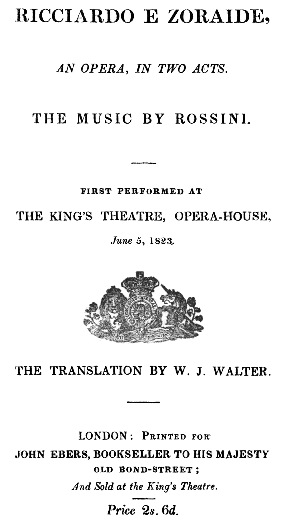 Gioachino Rossini - Ricciardo e Zoraide - titlepage of the libretto - London 1823